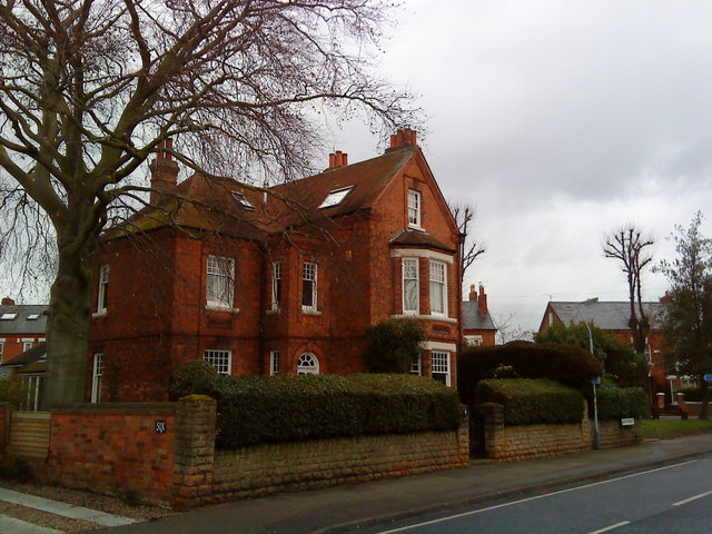 Glebe Street, Beeston Victorian House on Glebe Street, Beeston. Originally one half of a semi-detached building, the adjoining property was demolished by the council as part of a road widening scheme.